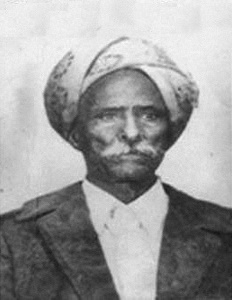 Sheikh Ali Ayanle Samatar. Somali: Sheekh Cali Ayaanle Samatar. A widely known Gadabuursi Sheikh among Somali's from Ethiopia, Djibouti and Somalia.